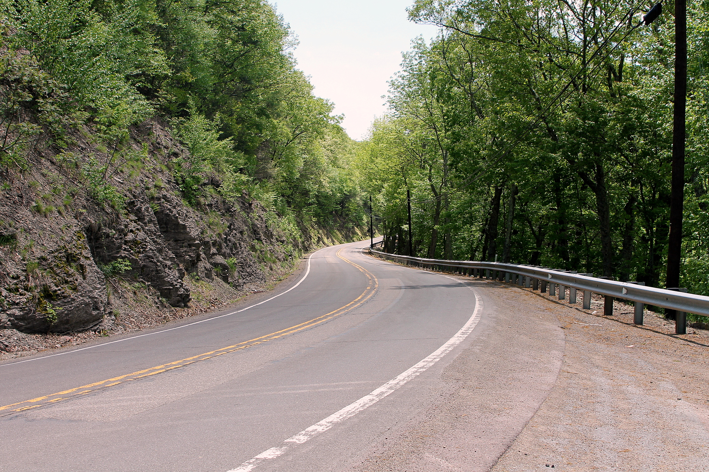 Pennsylvania Route 239 looking near Benton, Columbia County